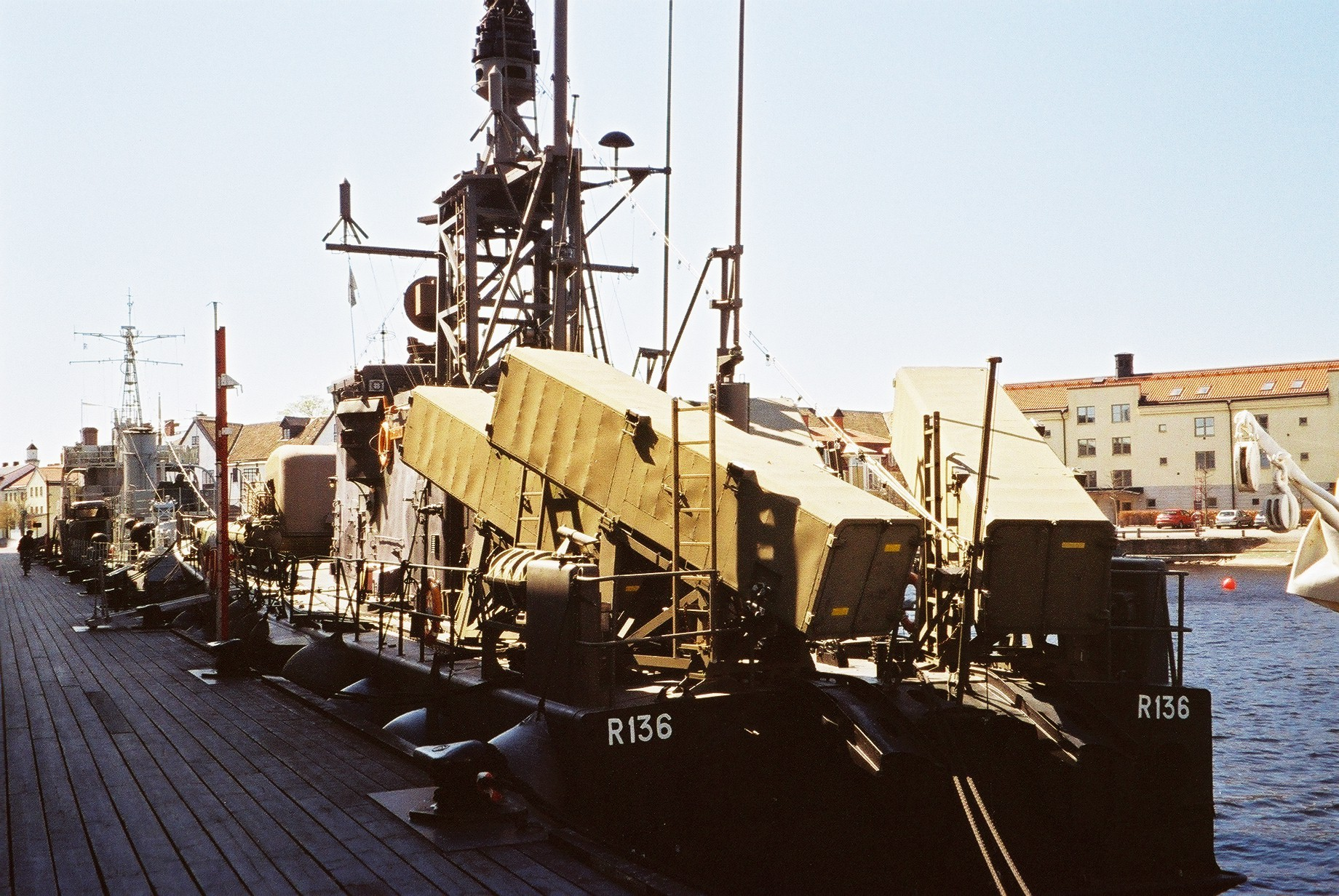 Swedish torpedo boat (later missile boat) HMS Västervik (T136/R136).